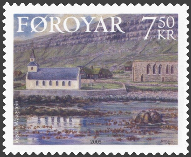 Jógvan Waagstein: Í Kirkjubø 1924 (Village of Kirkjubøur), 50x65 cm, Einstakl. ogn (Private Collection) Stamp FO 534 of Postverk Føroya, Faroe Islands Date of issue: 19 September 2005